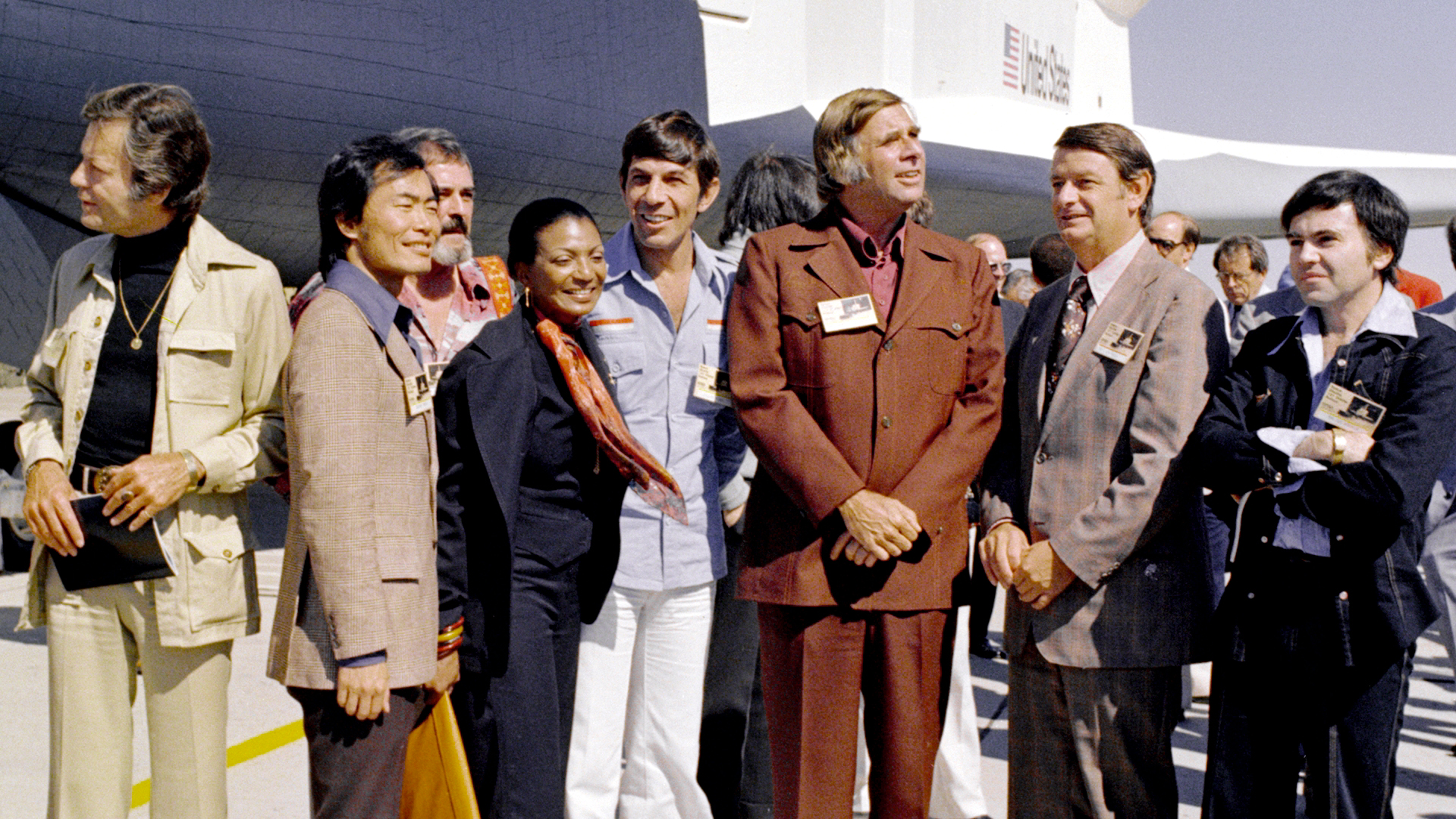 The Space Shuttle Enterprise rolls out of the Palmdale manufacturing facilities with Star Trek television cast and crew members. From left to right, the following are pictured: DeForest Kelley, who portrayed Dr. "Bones" McCoy on the series; George Takei (Mr. Sulu); James Doohan (Chief Engineer Montgomery "Scotty" Scott); Nichelle Nichols (Lt. Uhura); Leonard Nimoy (Mr. Spock); series creator Gene Roddenberry; NASA Deputy Administrator George Low; and, Walter Koenig (Ensign Pavel Chekov).